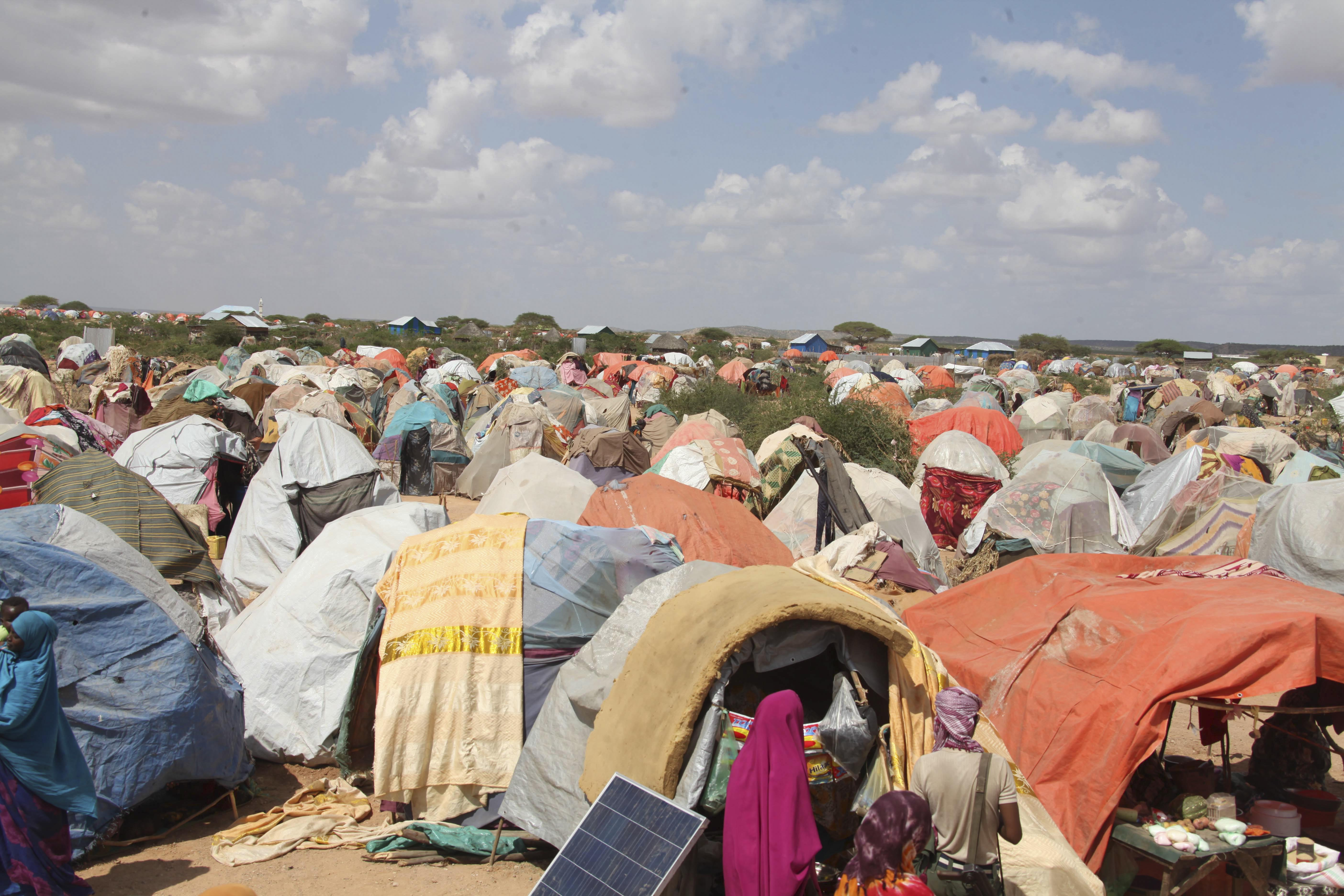 Make shift houses in Internal Displaced Camp outside of Belet Weyne Capital of Hiran Region, Somalia on November 05, 2014 AU/UN IST / Photo Ahmed Qeys